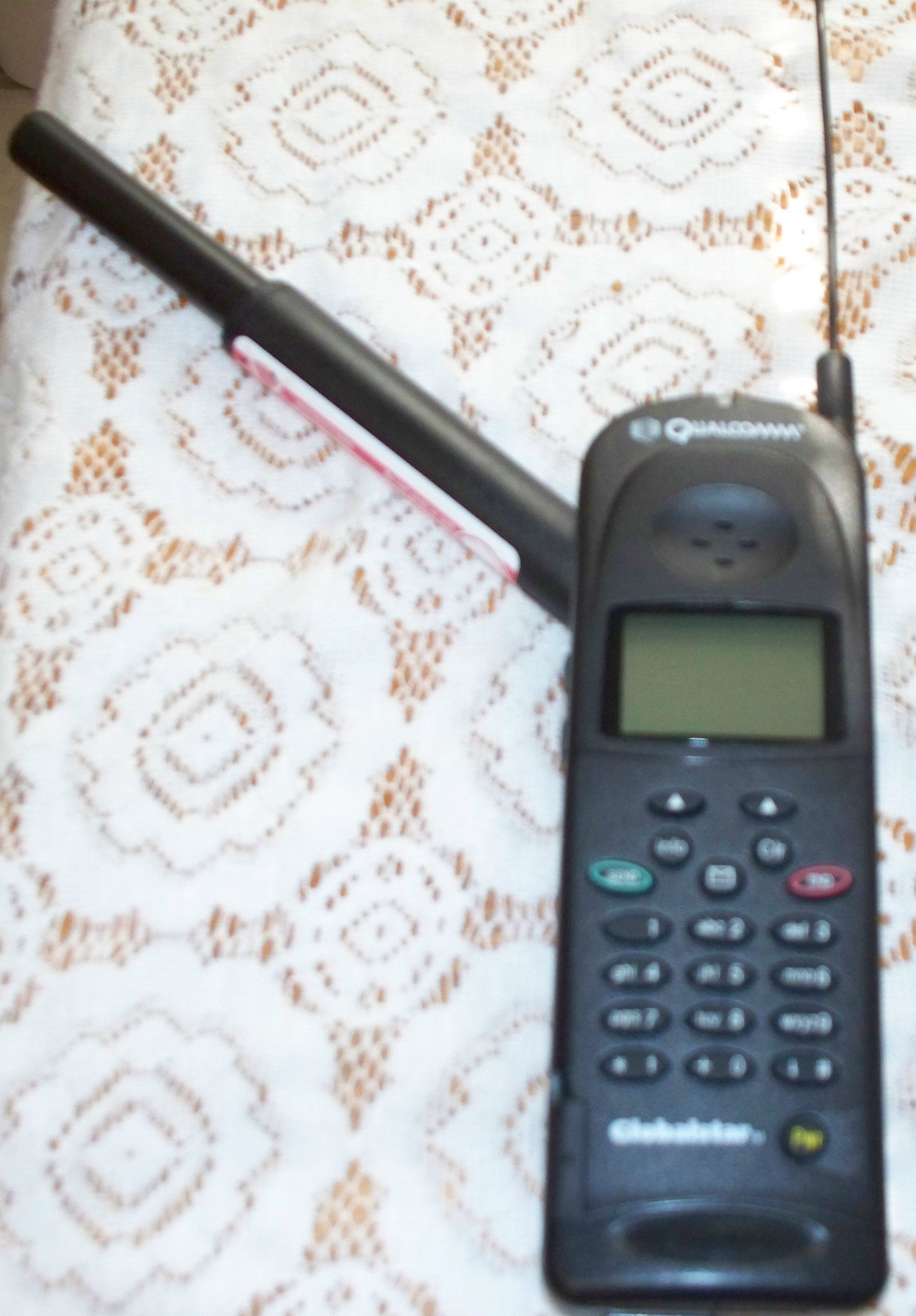 QualComm Satellite Phone